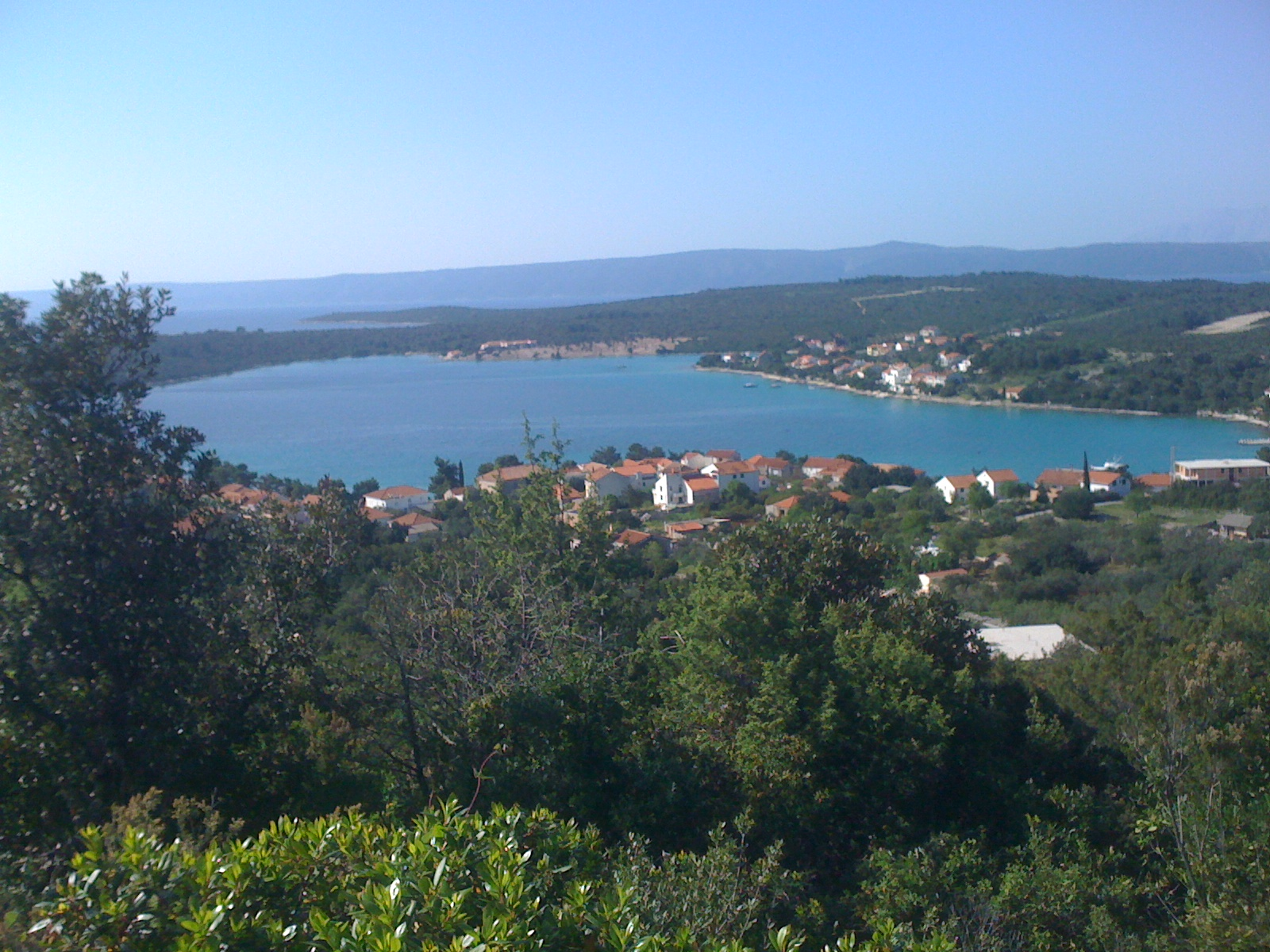 Lovište